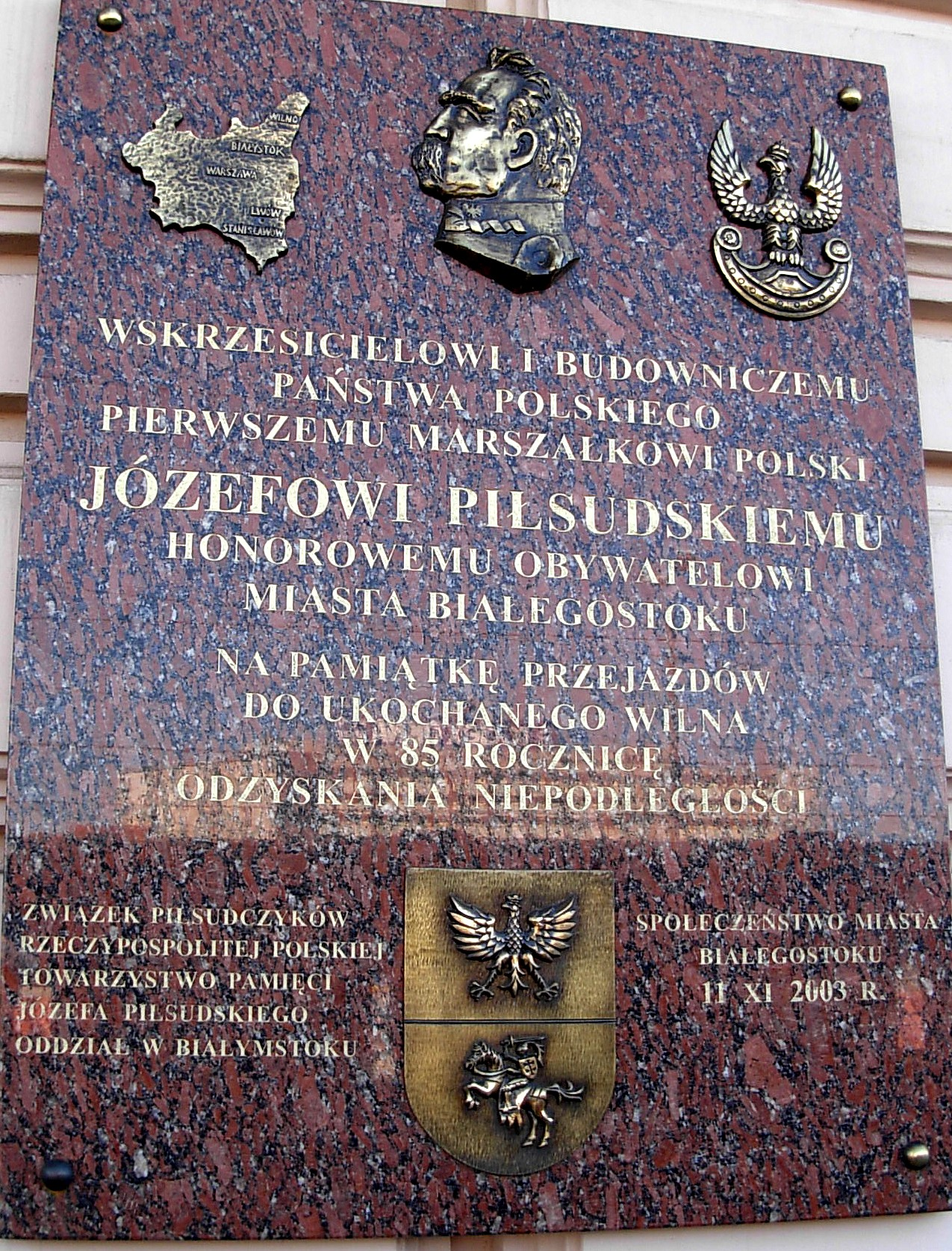 Tablet commemorating Jozef Pilsudski's train trips to Wilno/Vilnius on the wall of the main Białystok railway station.